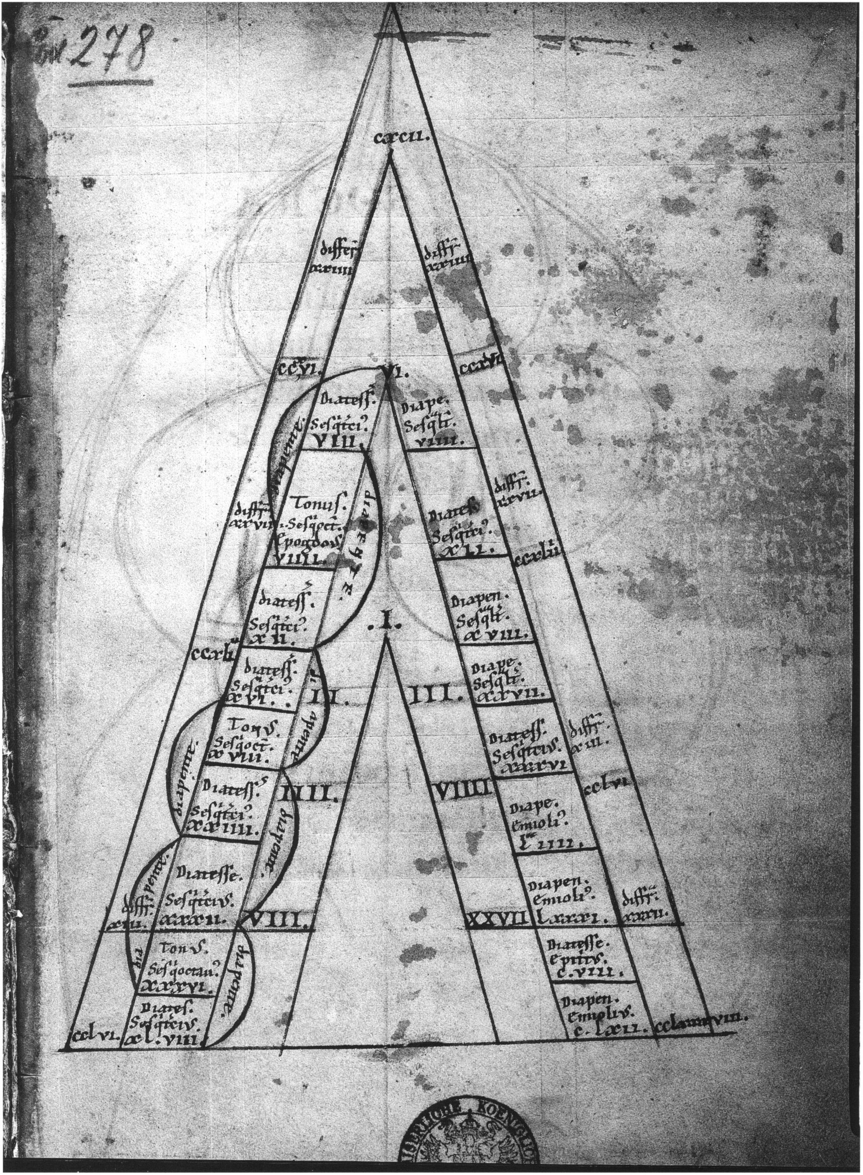 A diagram in Calcidius’ Commentary on Plato’s Timaeus. Manuscript Vienna, Österreichische Nationalbibliothek, 278, fol. 1r.